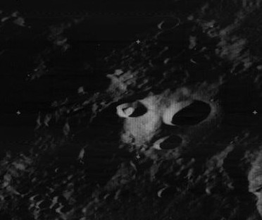 Oblique view of Ryder at center, facing roughly south, on the far side of the moon.